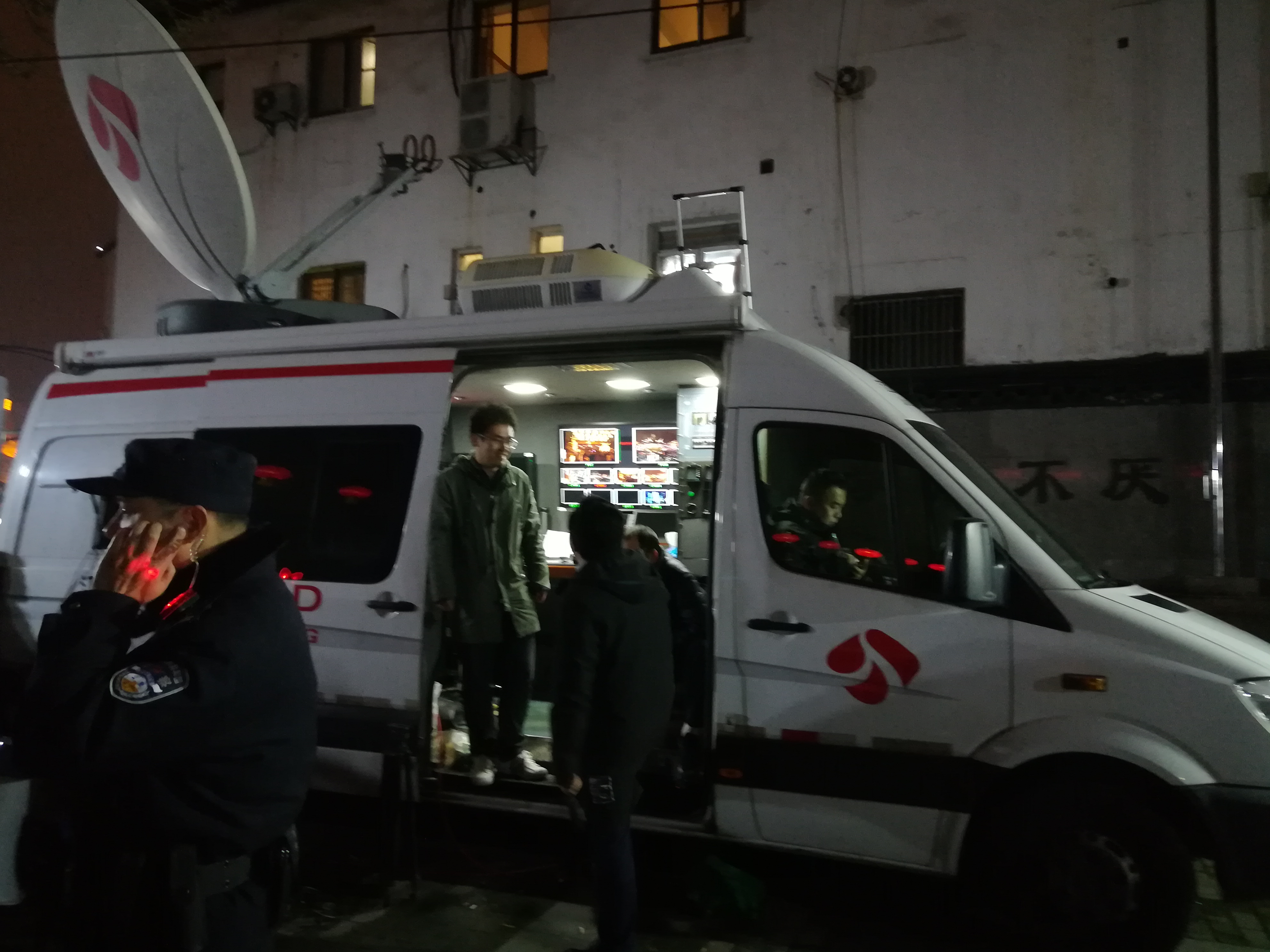 The SNG van of Jiangsu Broadcasting Corporation at the exit of Fuzimiao.